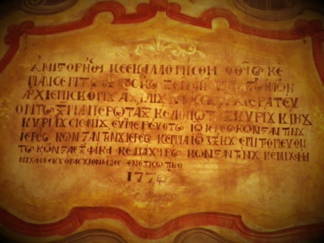 Saint Achillius Church in Pentalofos Inscription